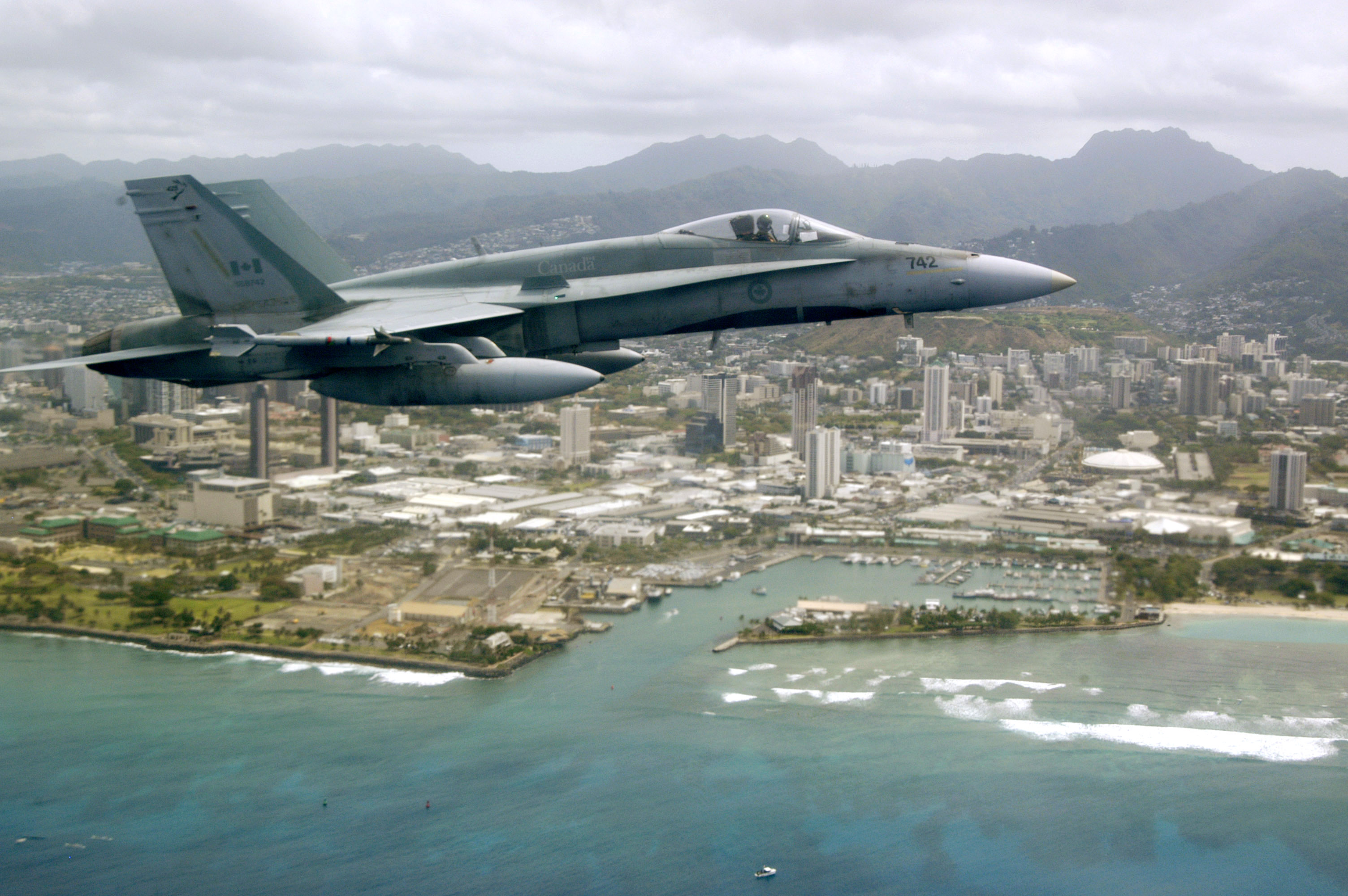 A Canadian Forces CF-18 Hornet flies in formation with other aircraft off the coast Hawaii in celebration of Canada Day. Eight nations were participating in "Rim of the Pacific (RIMPAC) 2006", the world's largest biennial maritime exercise. Conducted in the waters off Hawaii, RIMPAC 2006 brought together military forces from Australia, Canada, Chile, Peru, Japan, the Republic of Korea, the United Kingdom and the United States.